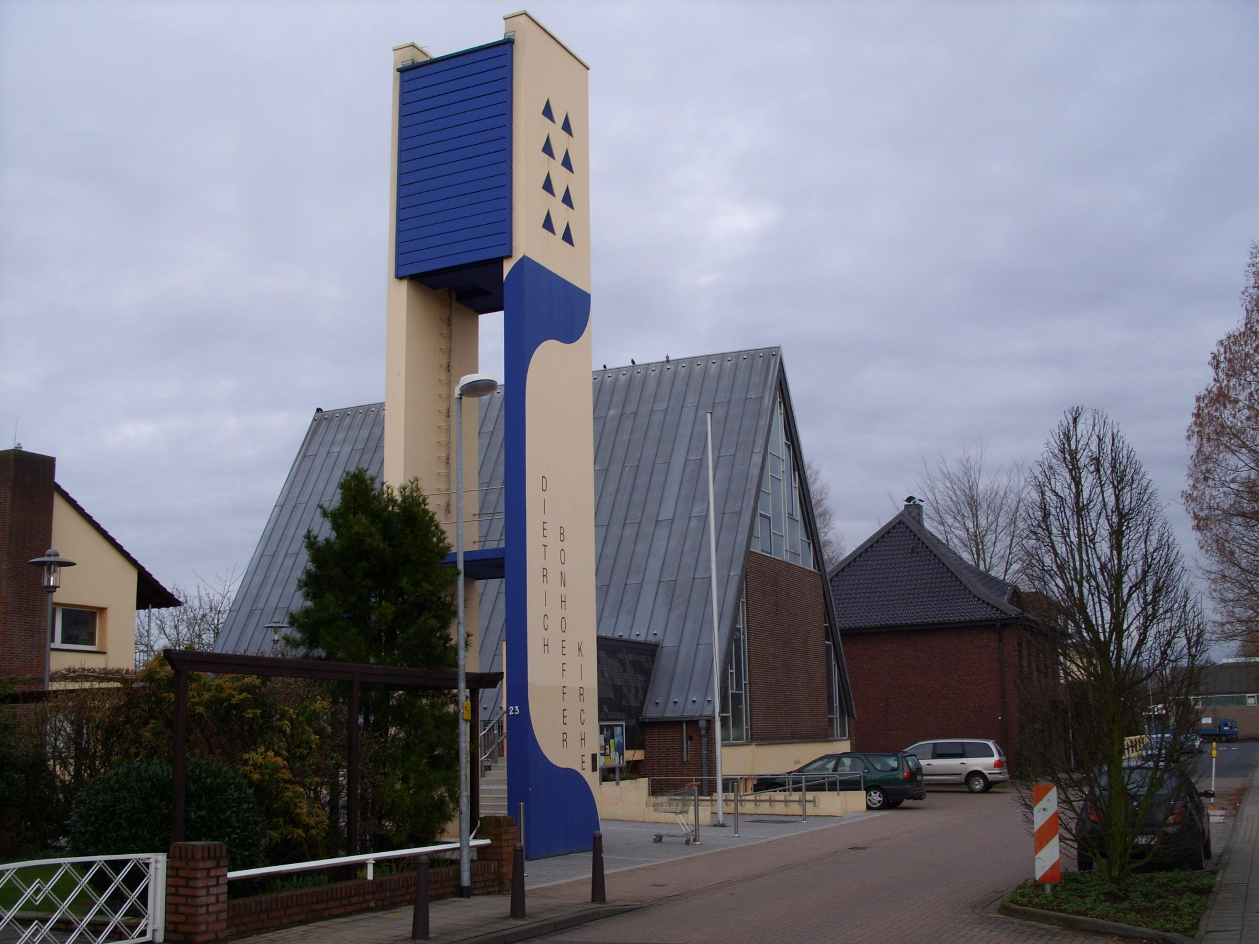 The Dietrich-Bonhoeffer-Kirche in Straelen.